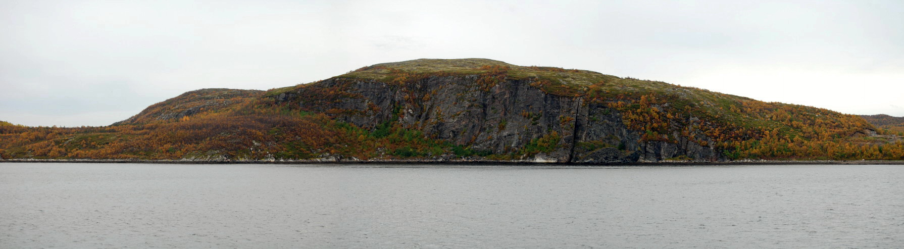 Panoramic view of Kola Peninsula